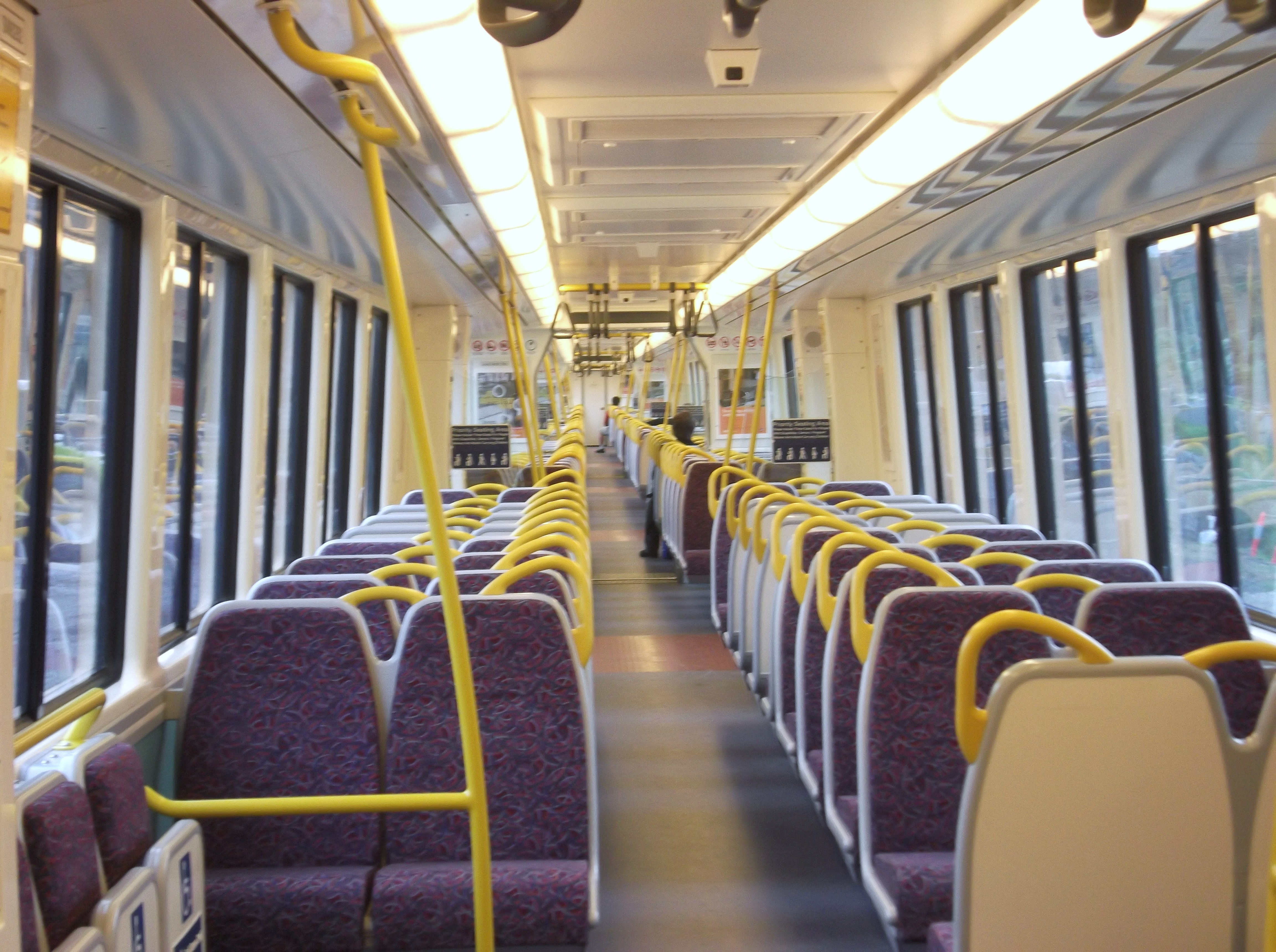 The whole interior of an SMU 260.